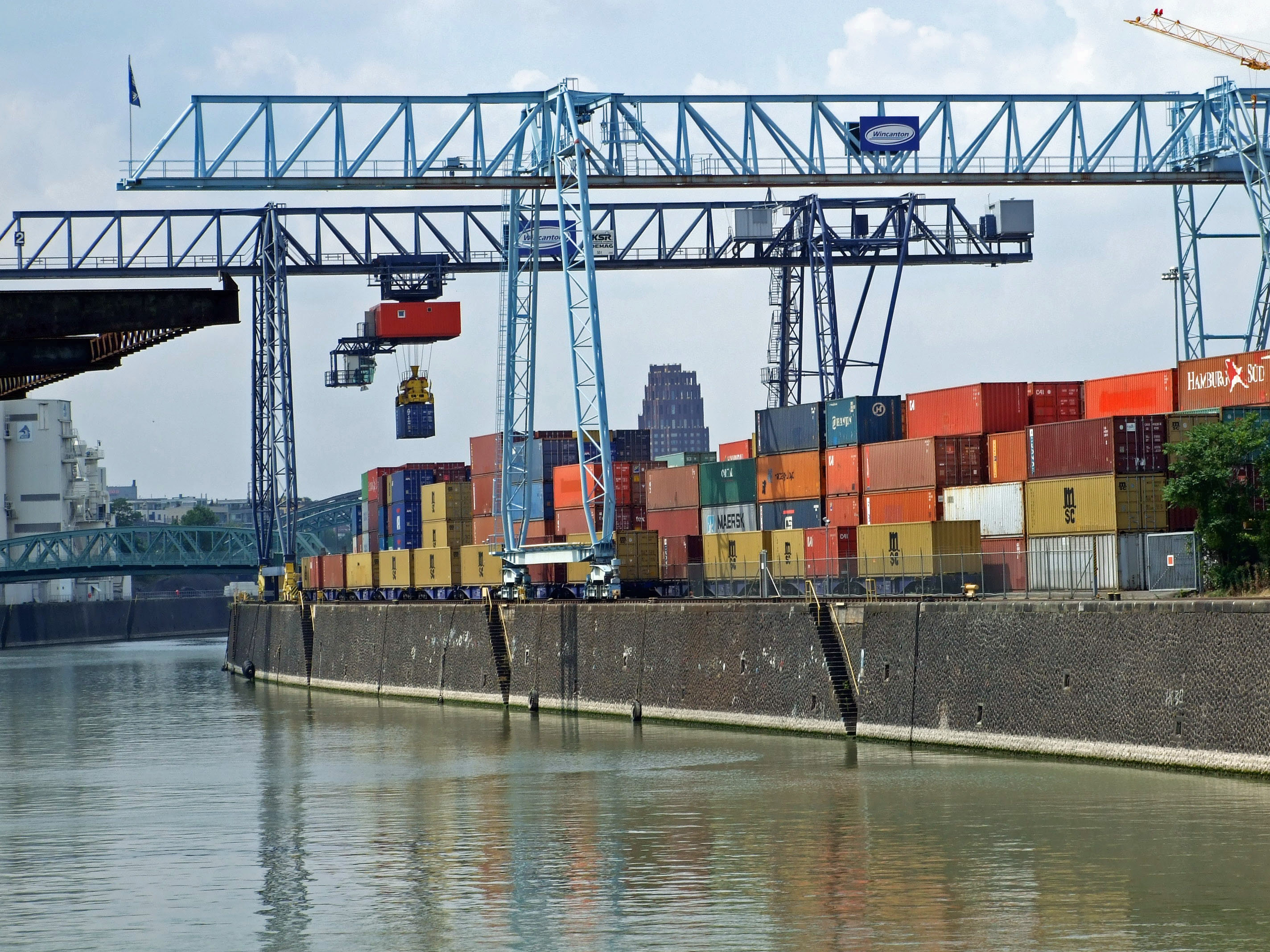 Container terminal at habour, Osthafen in Frankfurt am Main Ostend